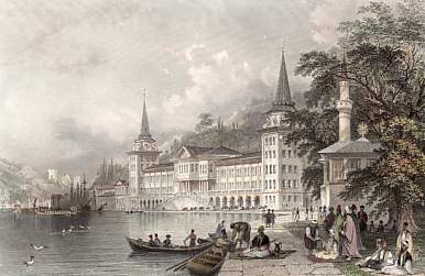 steel engraving drawn by T. Allom, engraved by S. Fisher. 1841.Hand-coloured. 18x12,5cm.